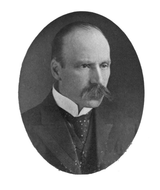 James Herbert Veitch (1869-1907), horticulturist